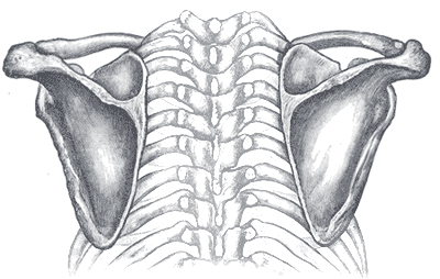 Posterior view of the thorax and shoulder girdle. (Morris.)